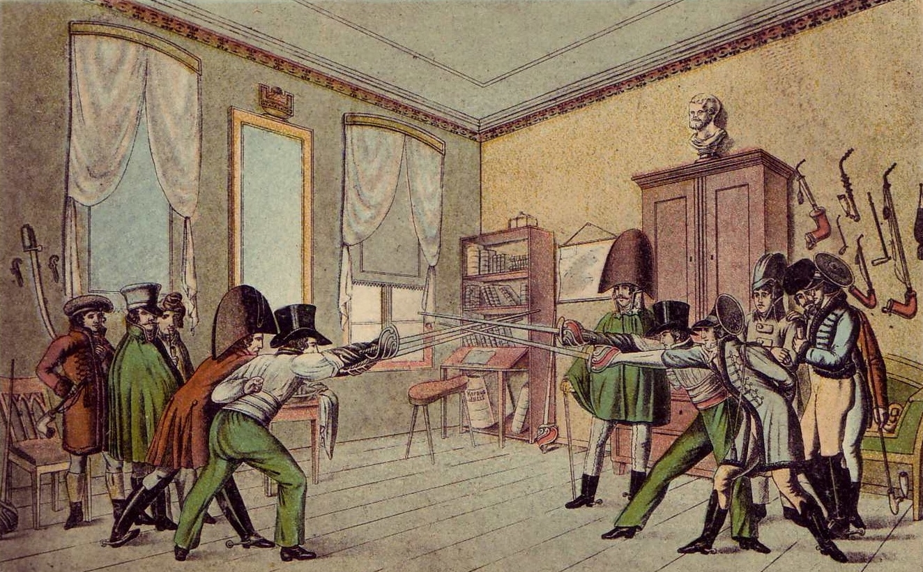 Duell between students in Göttingen 1808.